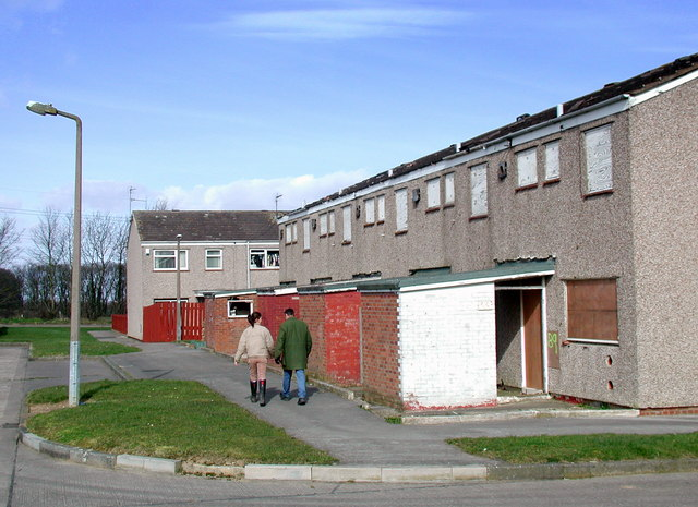 Aberdovey Close, North Bransholme The Bransholme estate was built between 1965 and 1983 by Hull city council as part of its programme of slum clearance and re-housing, with North Bransholme being developed from about 1975. The estate was built partly on land transferred to the city from the neighbouring parishes of Wawne and Sutton in 1968. Bransholme on completion had around 9,000 homes, 2,500 of which were here in North Bransholme. By the 1990s North Bransholme was classified as an area of social deprivation. There are always quite a few boarded-up houses on the estate these days. Some blocks get refurbished while others are knocked down leaving larger green spaces between the remaining ones. Wellies are not normally the footwear of choice on Hull's council estates but this is right on the rural/urban fringe: there are open fields beyond the trees to the left and the couple in the picture are heading for nearby Carlamhill Farm.